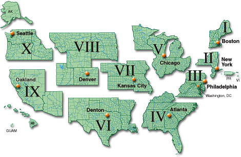 Map of regions of the Federal Emergency Management Agency